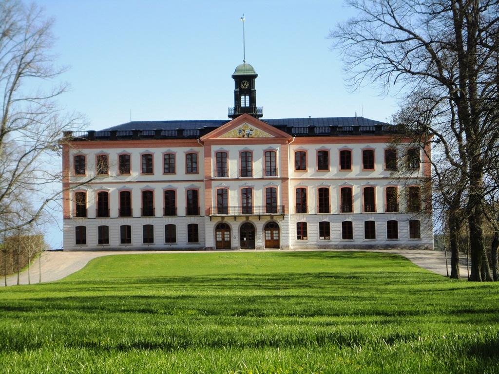 Tullgarn Palace closer view